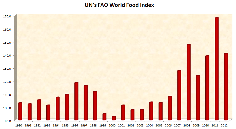 Public domain graph made by me using MS excel and public domain data. The World Food Index reflects the change in the average international price of a mixed basket of food, corrected for inflation. This pic indicates the changes from 1990 to 2012. The underlying data for this graph is from the UN's FAO , available here (note: 2011 figure used for this pic is for begining of year, and 2012 average up to June, all other figures were whole year averages)